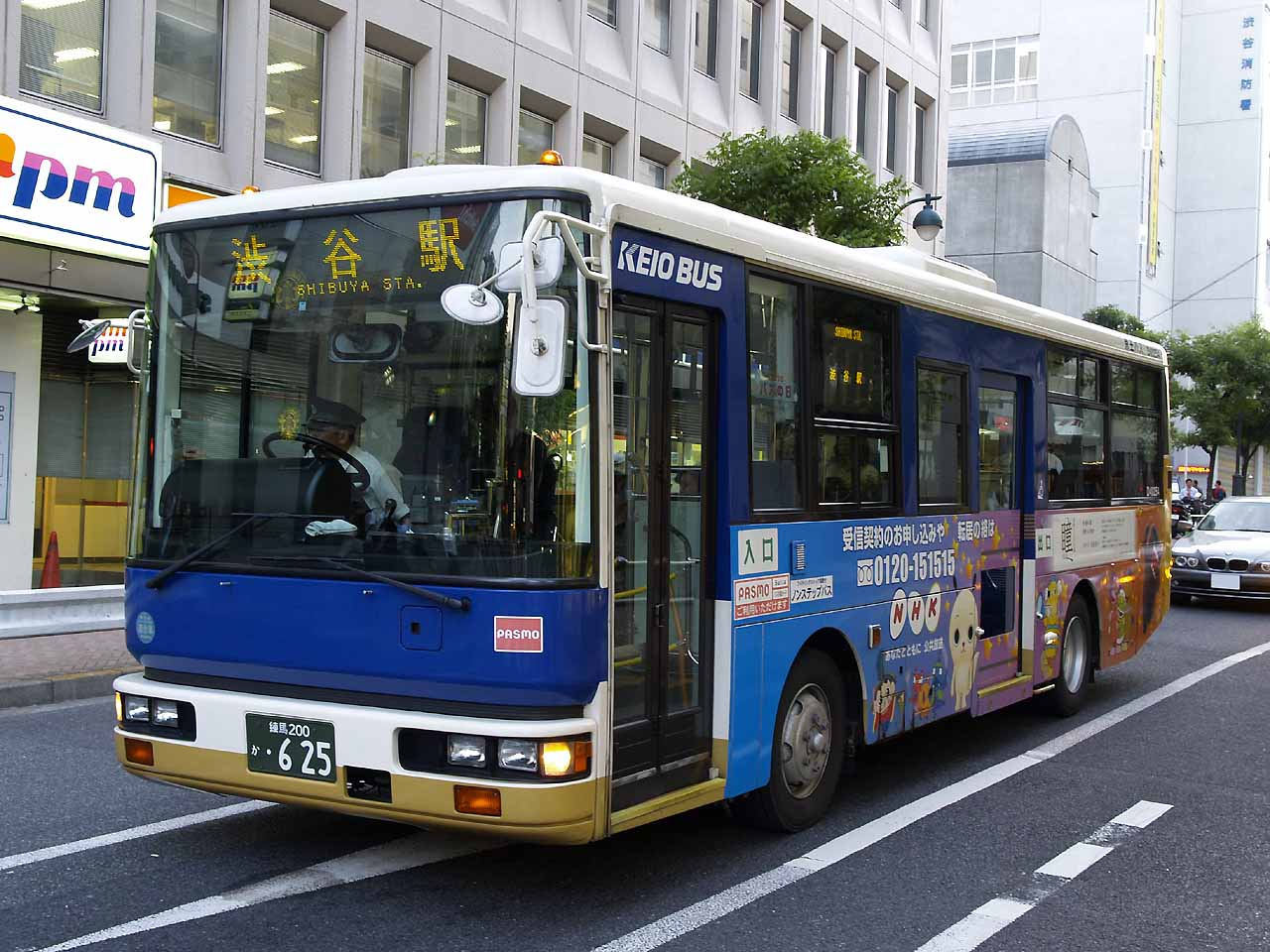 fleet of Keio Bus Higashi, operated as NHK "Studio Park" shuttle bus. Model: Nissan Diesel KK-RM252GAN Licernse plate: TKN200 KA-625 Place: Jin-nan, Shibuya ward, Tokyo Japan